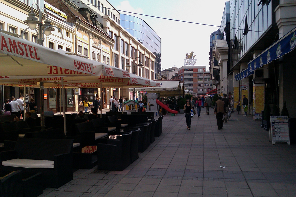 Street in Niš